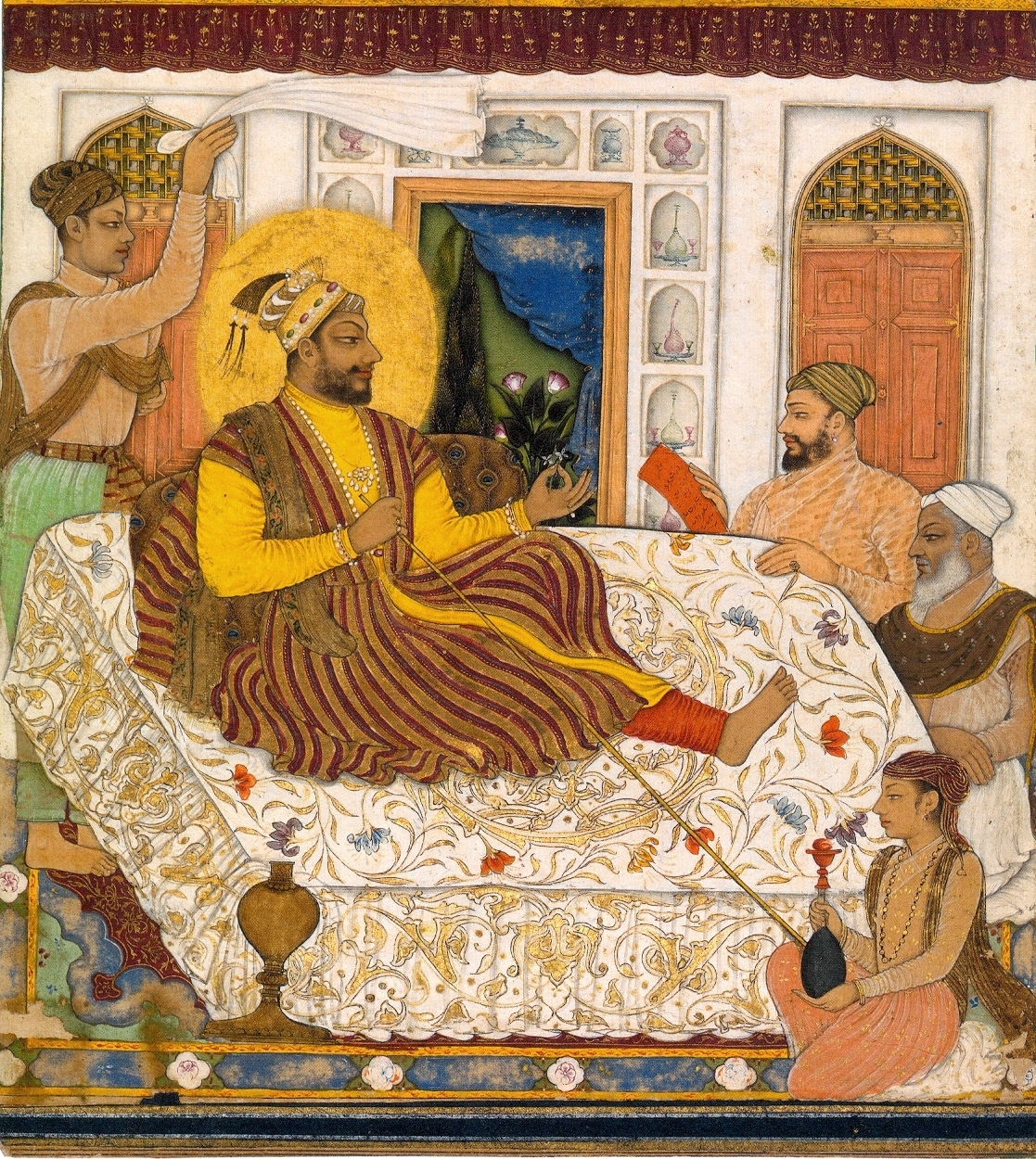 Attributed to Bombay Painter, Darbar of Ali Adil Shah II, ca. 1660, Private coll